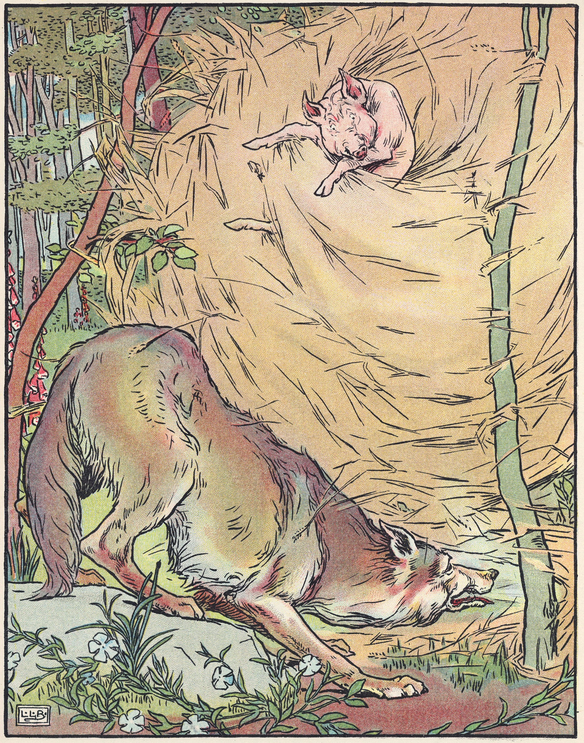 The wolf blows down the straw house in a 1904 adaptation of the fairy tale Three Little Pigs.